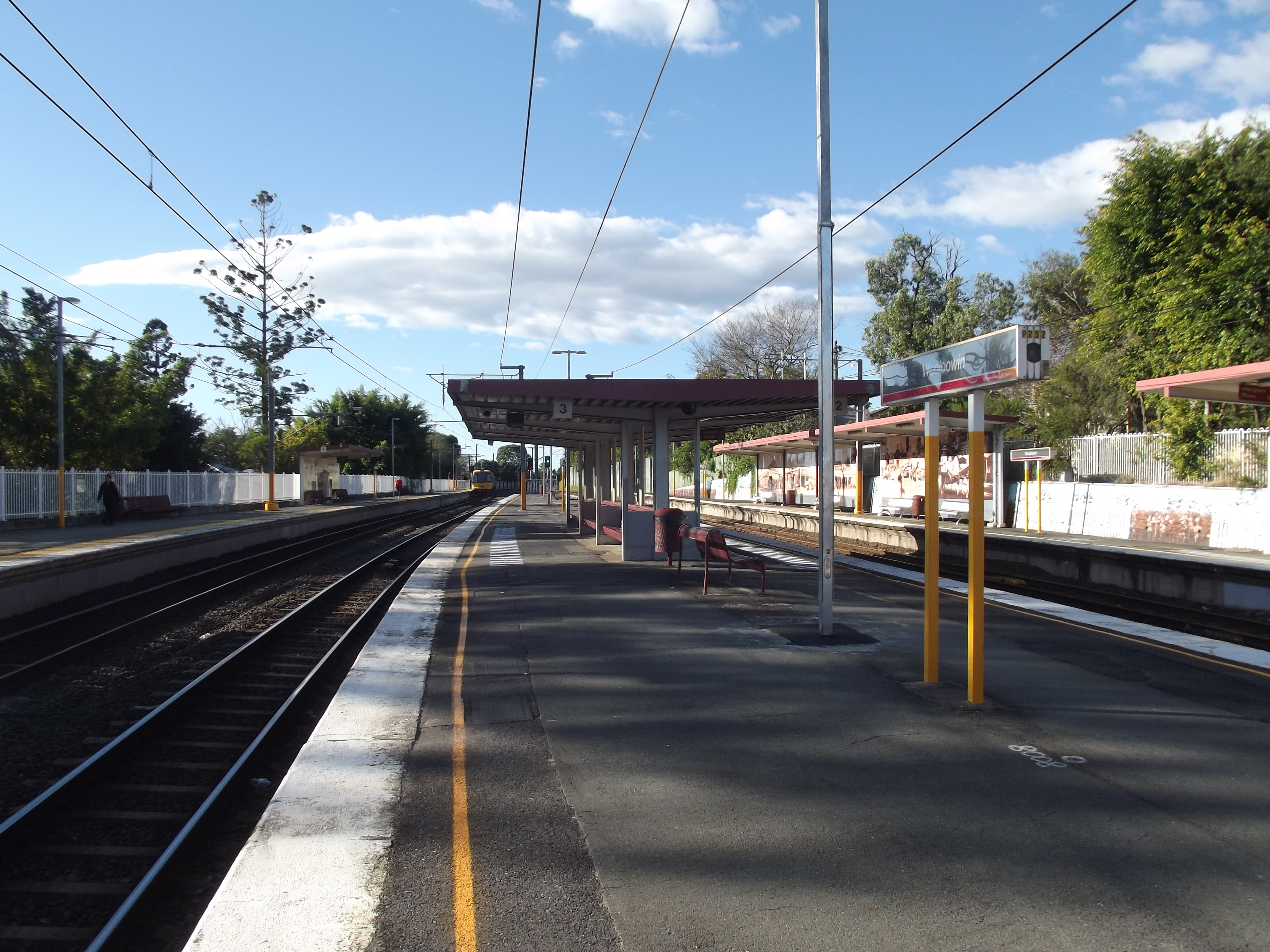 A photo of the Wooloowin railway station, operated by TransLink, located in Brisbane, Queensland.